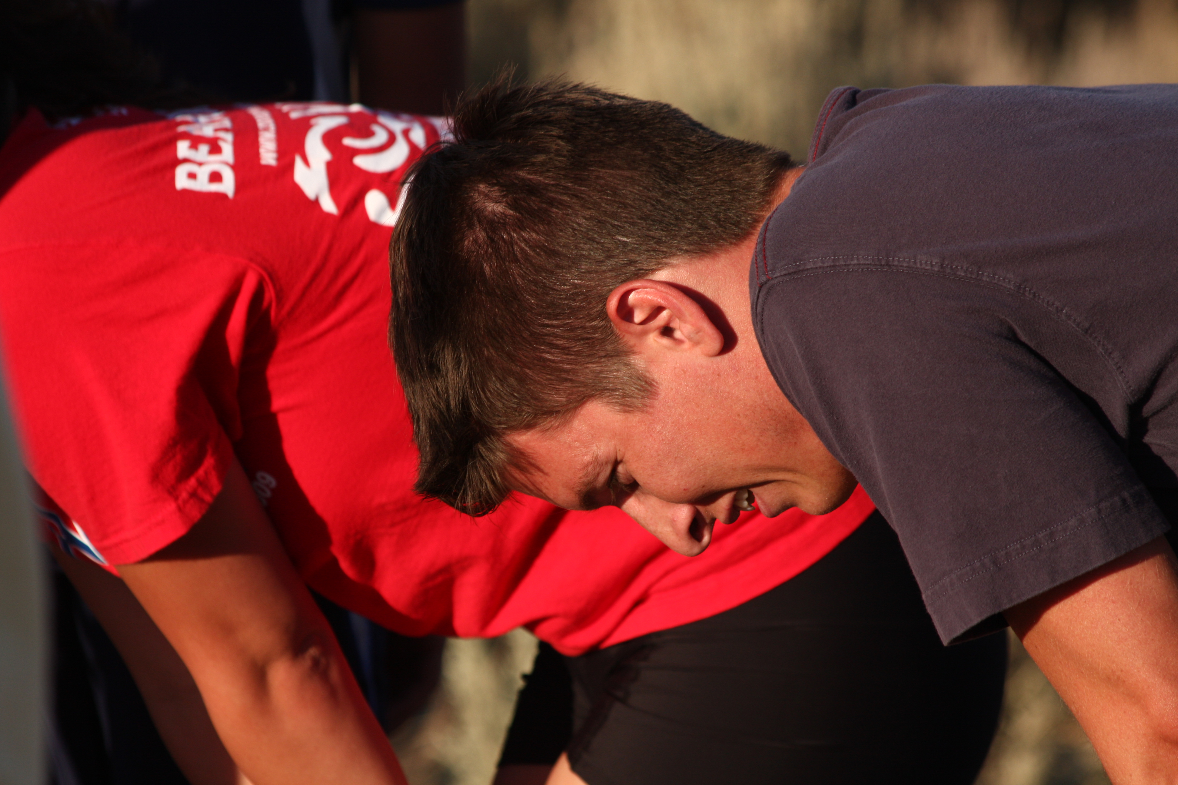 Runners tired and panting after a race.